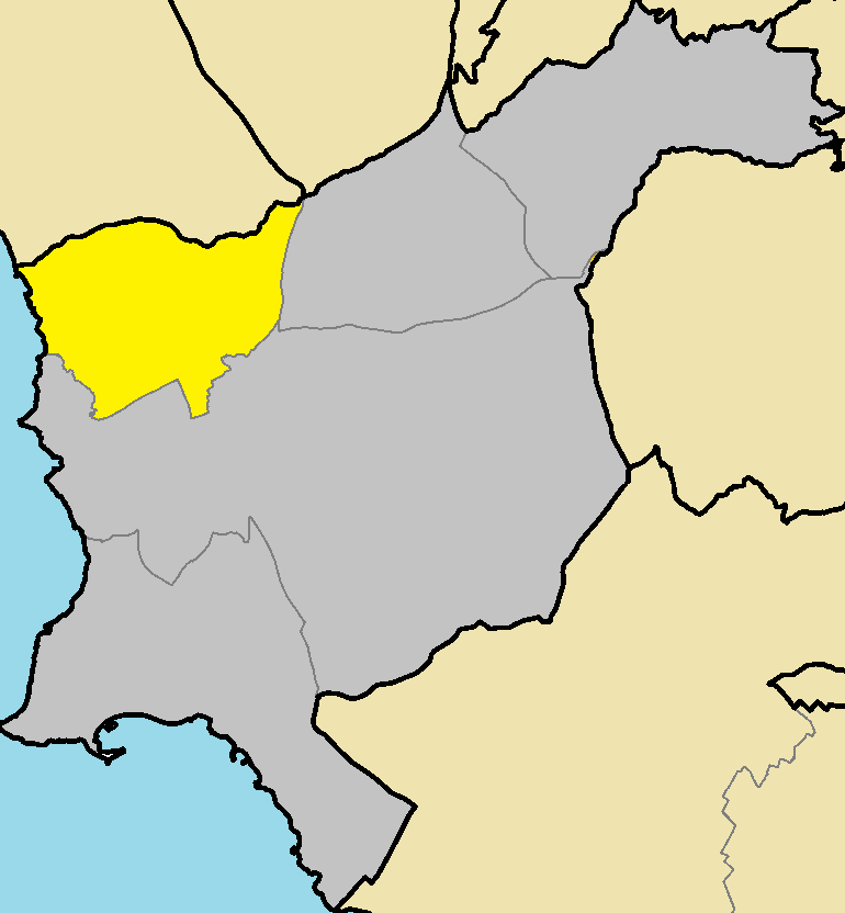 Mouttalos in Paphos Municipality.